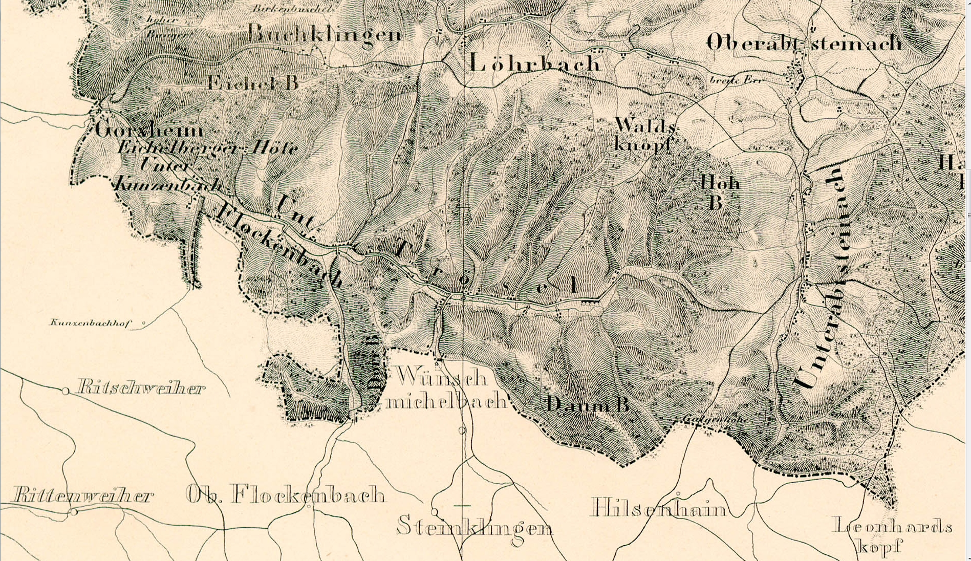 map Großherzogtums Hessen 1832-1850